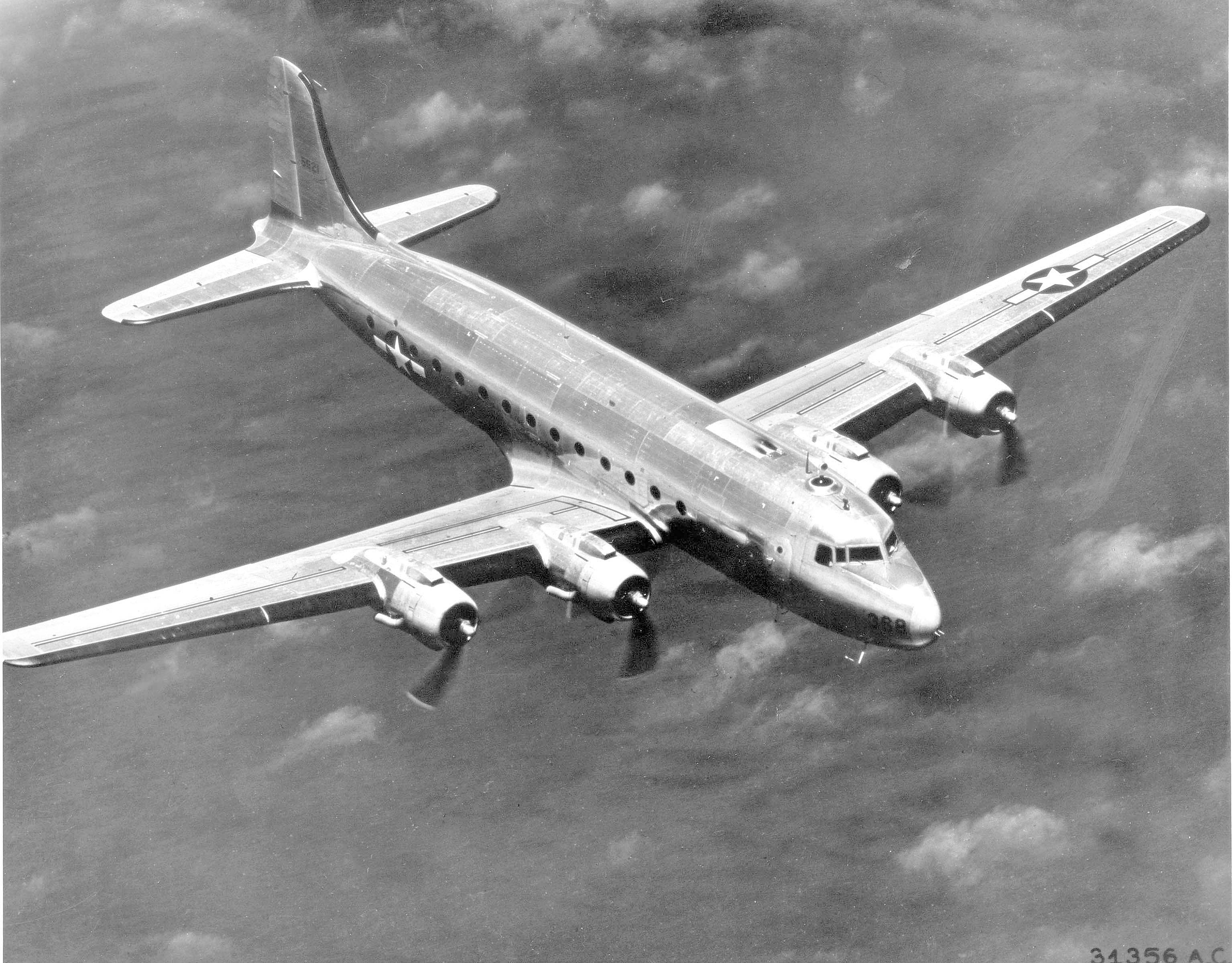 A U.S. Air Force Douglas C-54G-1-DO Skymaster (s/n 45-521, c/n 35974). It was later sold and operated with the to civil registries N3370F, HK-2017 (1977 - Transportes Petroleros de Santander (TRANSAPEL)), and was operational as late as September 1999 as N3370F.